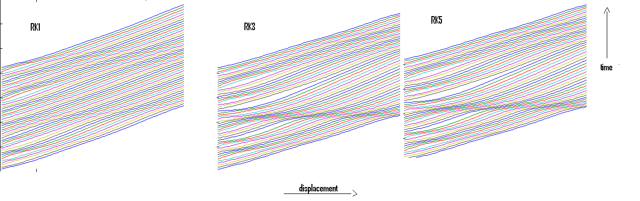 Comparison of IDM model simulation for increasing orders in RK methods.